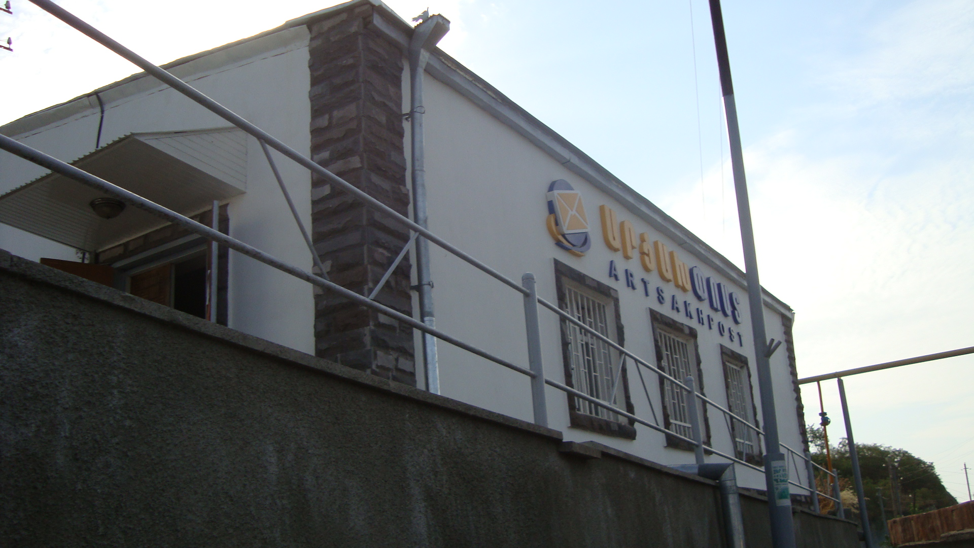 A building of Artsakhpost (post office). Berdzor, Republic of Mountainous Karabakh (Artsakh).